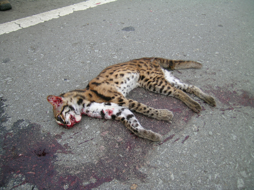 Borneo